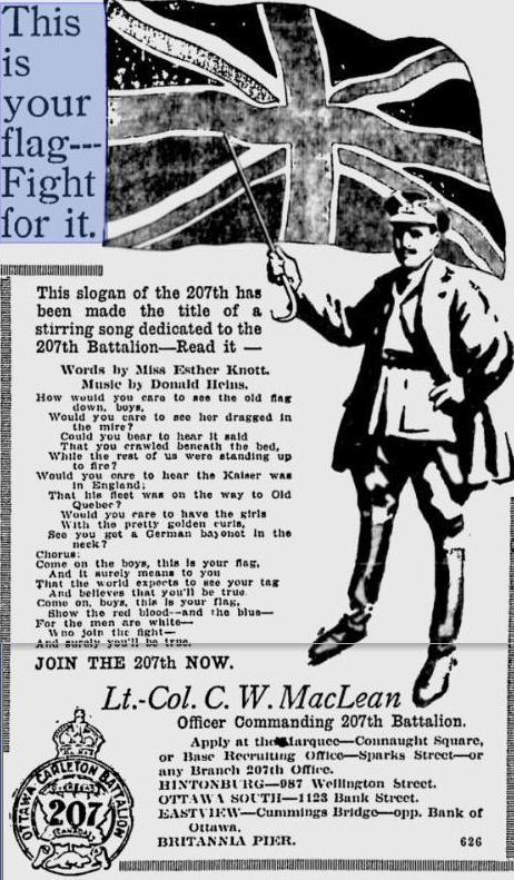 This is a recruitment poster for the 207th Battalion of Ottawa-Carleton, the recruiting office for which was in downtown Ottawa. A slogan of the 207 was made the title of a song dedicated to the 207th words by Miss Esther Knott. The unit went overseas in 1917, but was later broken up and its soldiers sent to reinforce other front-line infantry battalions, including the 2nd, 21st, and 38th Battalions, and the Princess Patricia's Canadian Light